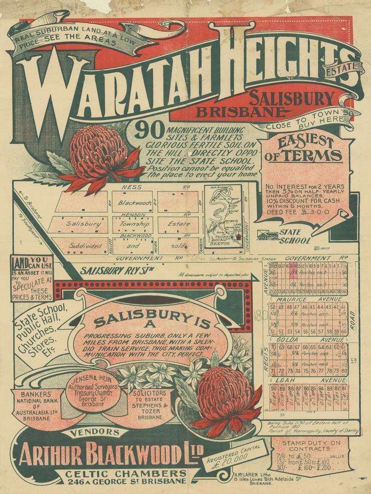 Creator: Arthur Blackwood Ltd., Land Agents ; Jensen & Hein, Surveyors. Location: Salisbury, Brisbane, Queensland. Description: Plan of allotments to be sold. Land for sale is subdivisions 1-90 of Eastern half of portion 180, Parish of Yeerongpilly, County of Stanley. Published by A. McLaren, lithographer (Brisbane). 54 x 40 cm. Map includes conditions of purchase, and a brief description of the land, public transport and utilties available. Read more about SLQ's map collections: View this image at the State Library of Queensland: Information about State Library of Queensland’s collection: You are free to use this image without permission. Please attribute State Library of Queensland.